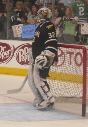 Kari Lehtonen of the Dallas Stars, warms up at the American Airlines Center before the match-up against the Chicago Blackhawks.